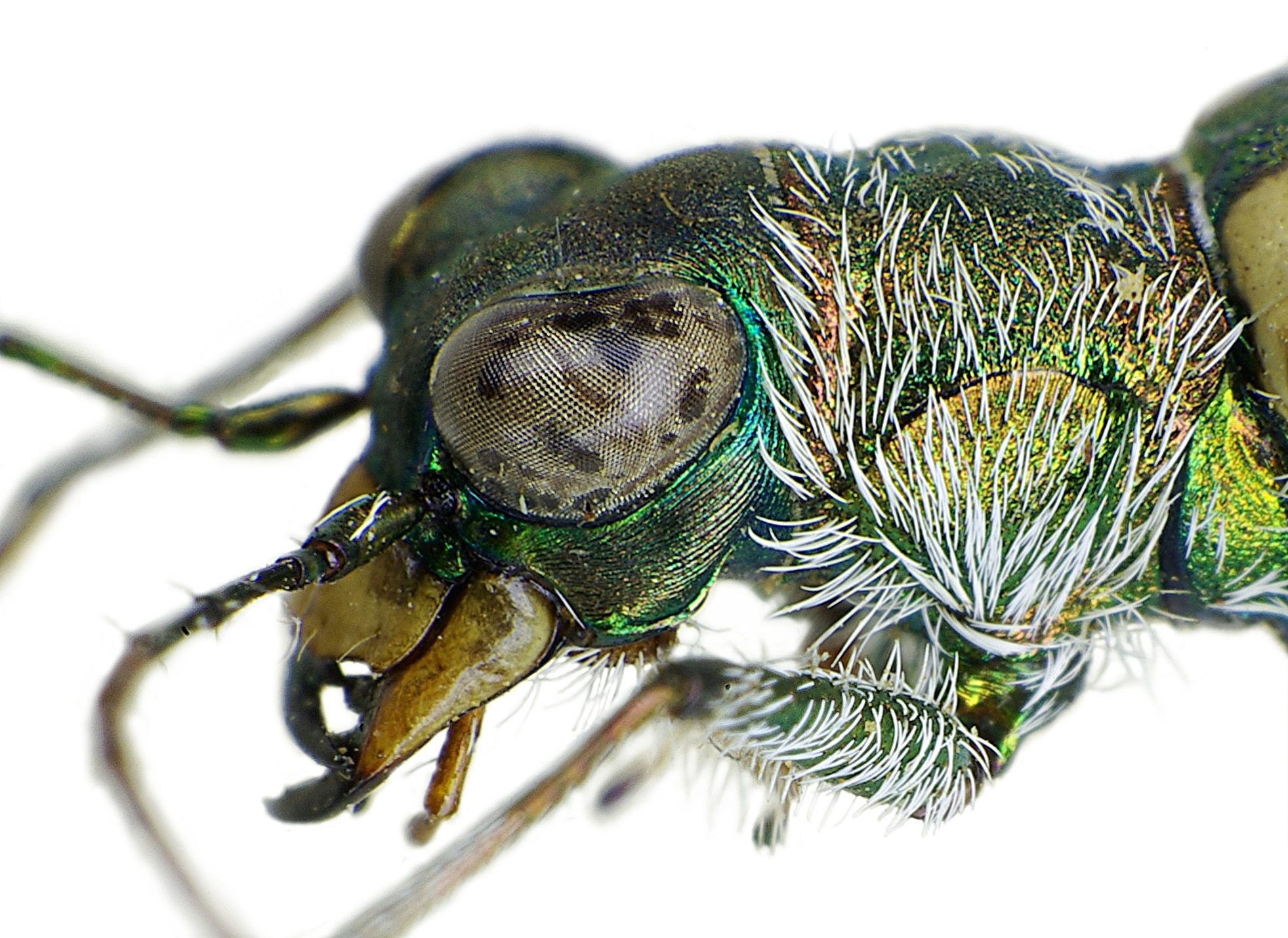 Head and prothorax of Cephalota circumdata circumdata from the side